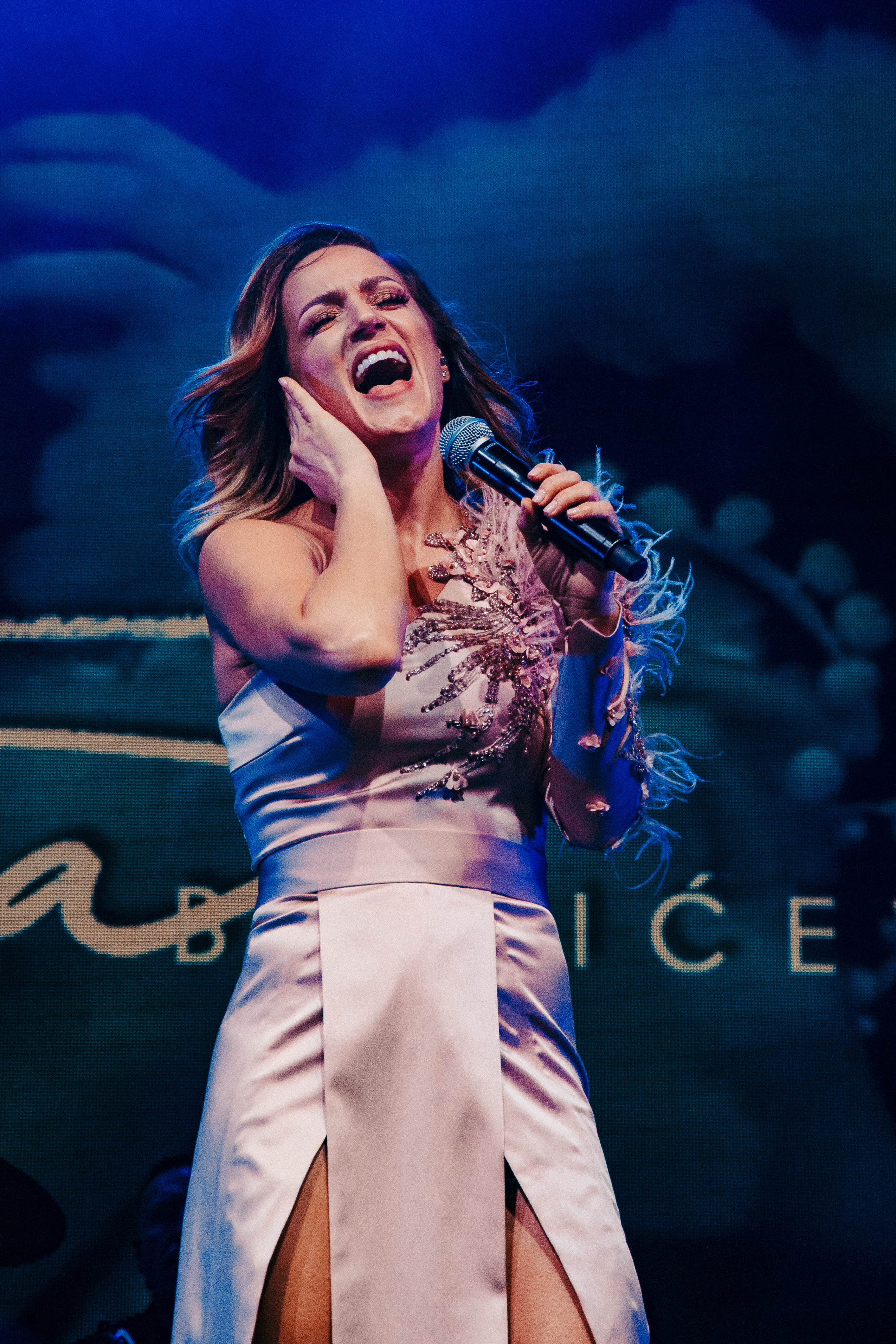 Tijana Bogicevic at stage in concert tour